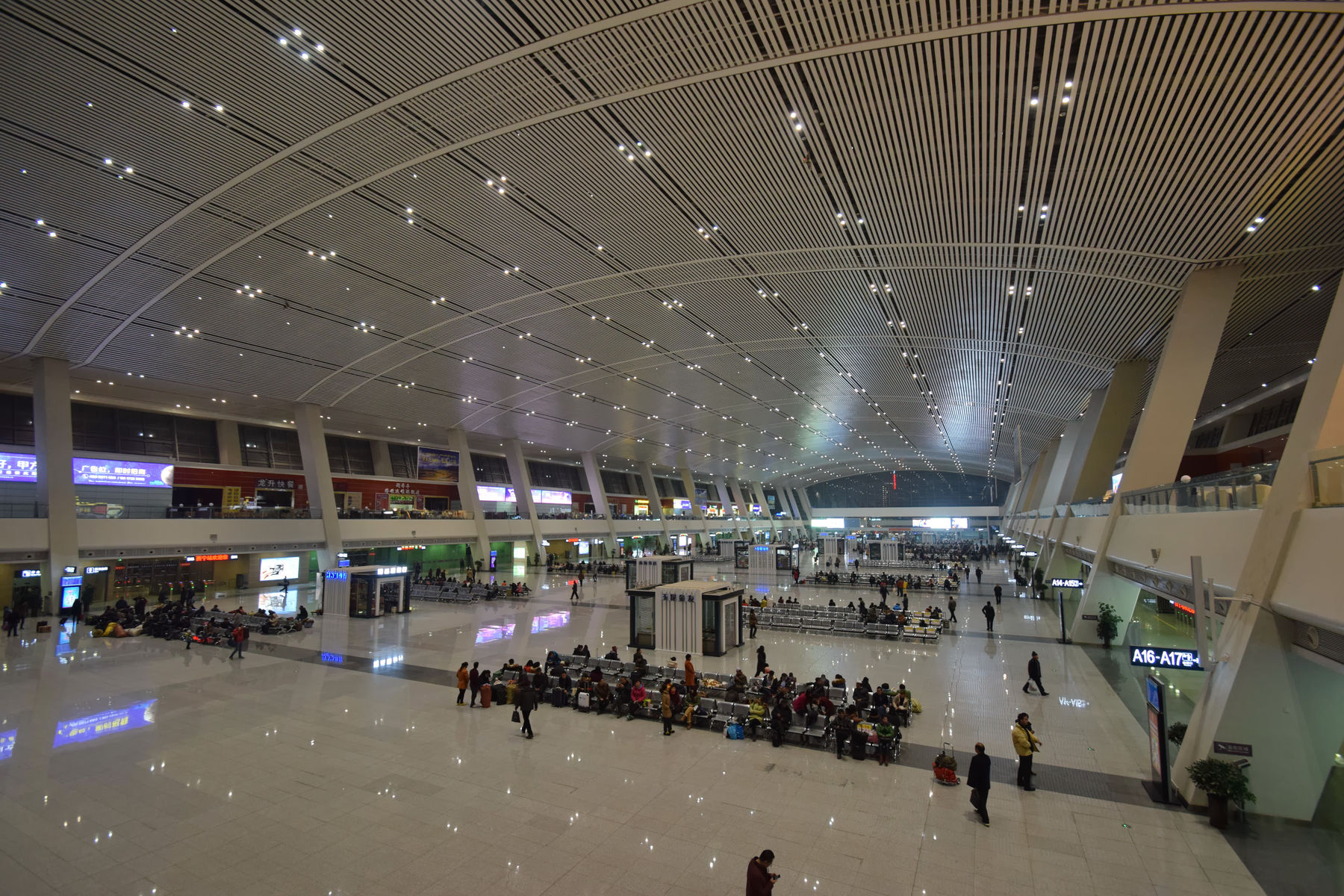 Concourse of Xining Railway Station